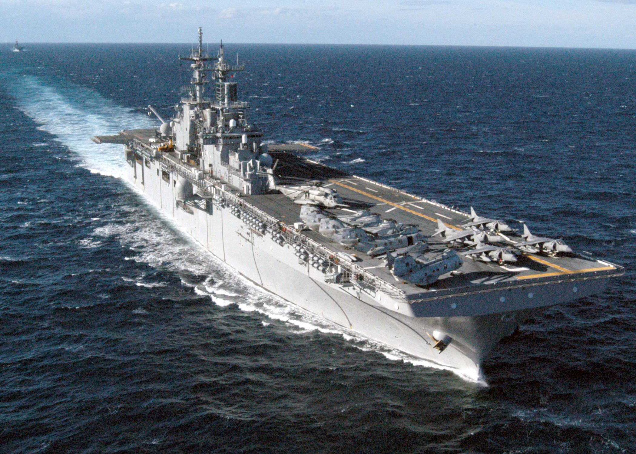 At sea with USS Kearsarge (LHD 3) Jan. 31, 2003 -- The amphibious assault ship Kearsarge steams along while underway in the Mediterranean Sea. Kearsarge is the flagship for Amphibious Task Force East (ATF-E) which departed on January 17th carrying the North Carolina-based 2nd Marine Expeditionary Brigade’s 7,000 Marines on an undisclosed mission. U.S. Navy photo by Photographer’s Mate 3rd Class Angel Roman-Otero. (RELEASED)